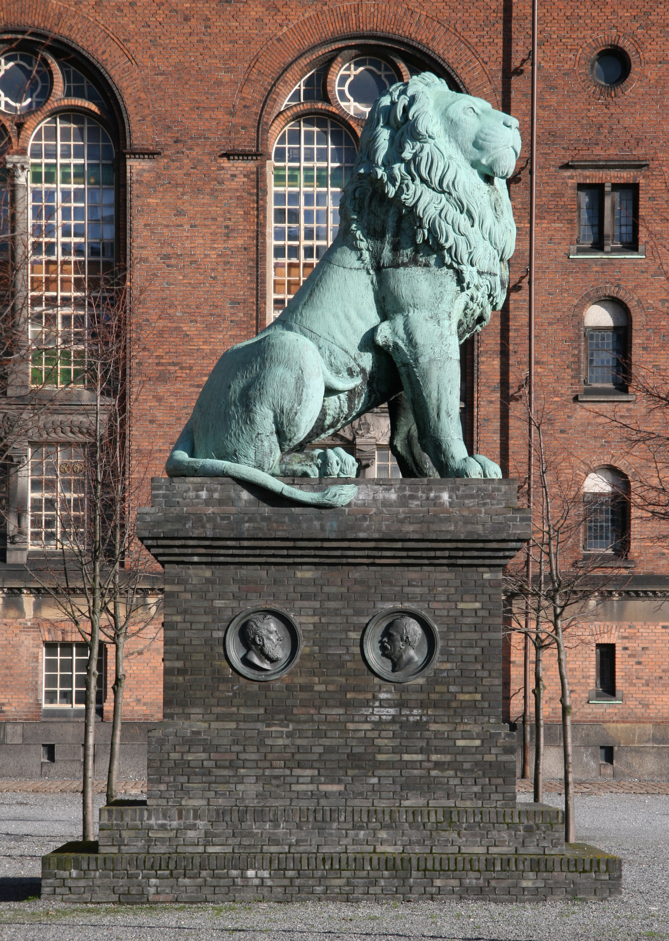 Istedløven (The Isted lion), a lion statue by Herman Wilhelm Bissen, which is a memorial of the battle of Isted (german: Idstedt). Sign reads: "Isted den 20. Juli 1850". First erected in 1862 in Flensburg, Germany, brought to Berlin in 1864 and since 1945 in Copenhagen. Sideview.